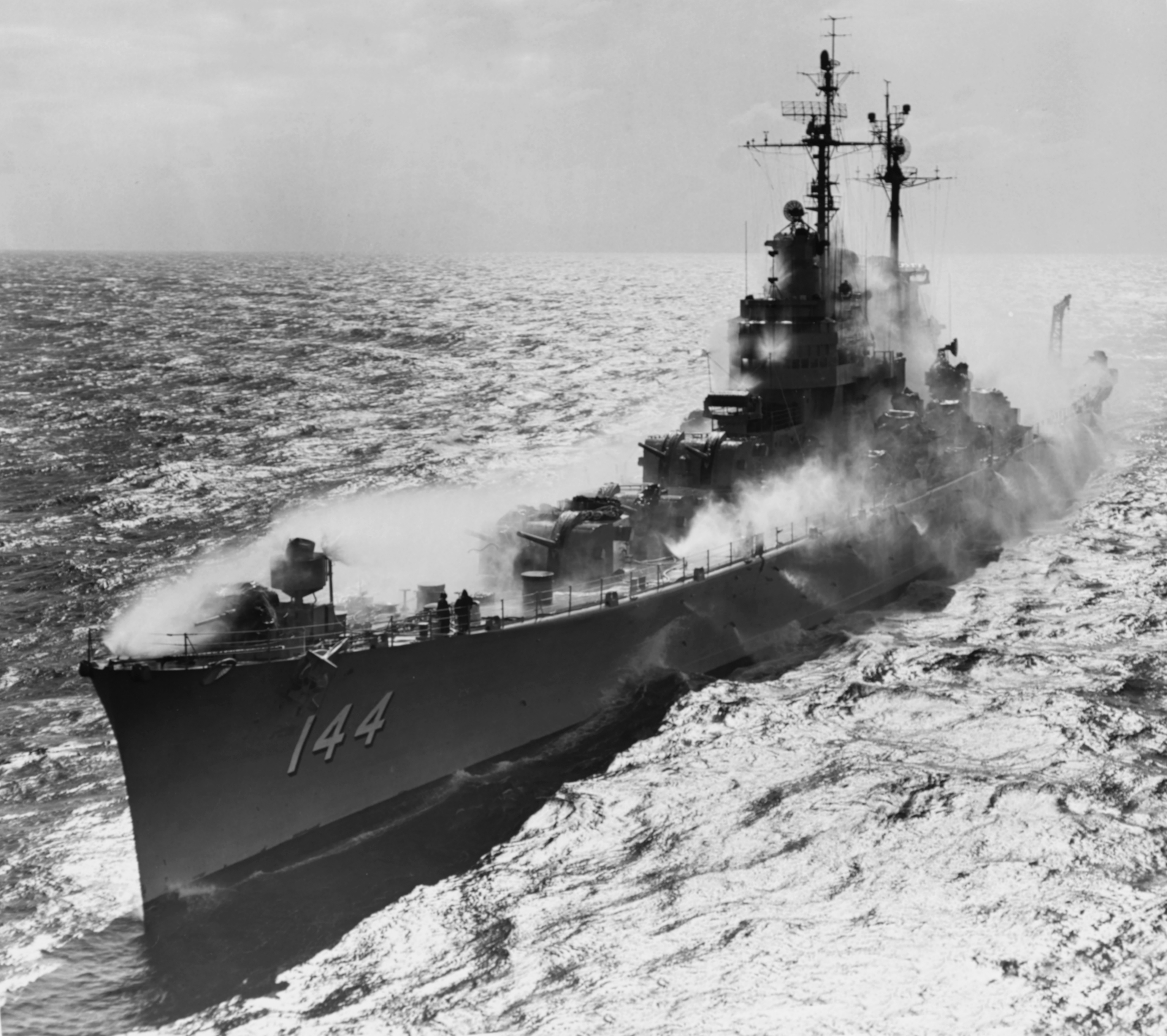 The U.S. Navy light cruiser USS Worcester (CL-144) testing her anti-nuclear radiation washdown system on 7 July 1954. Original caption: USS Worcester ... steaming under a protective water screen during atomic defense maneuvers. The ship employs its salt water system to cleanse itself of radioactive debris resulting from an atomic attack. The water carrying the radioactive debris is shown being discharged into the sea.""